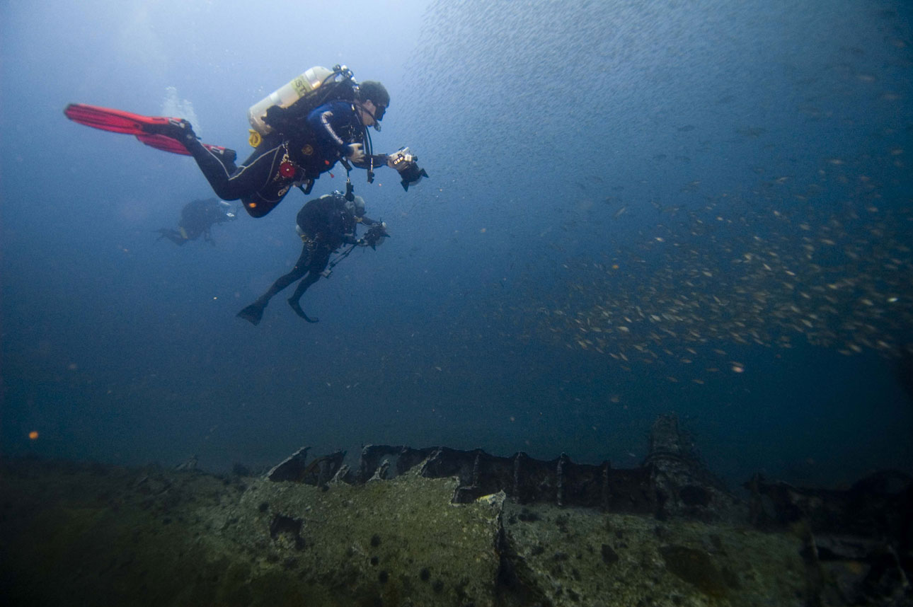 Divers from the Office of National Marine Sanctuaries and Eastern Carolina University photograph the German U-boat U-352. U-352 was surveyed off the coast of Morehead City, N.C., during the Battle of the Atlantic Expedition Summer 2008. The wreck site was surveyed using traditional archaeological mapping techniques coupled with video and photographic documentation. The site was discovered in the 1970s and has suffered the effects of storms, time, and looters. NOAA's objective during the survey was to map the site in detail and to assess its historical significance and archaeological integrity. NOAA divers used various technologies to document the sites, including employing underwater cameras and sonar to create a photo-mosaic of the wreck. To learn more about preserving our maritime heritage in national marine sanctuaries, visit: Office of National Marine Sanctuaries What is a National Marine Sanctuary? , ( Diving Deeper audio podcast ) Sanctuary Added to the National Register of Historic Places , ( Making Waves audio podcast ) (Original source: National Ocean Service Image Gallery )